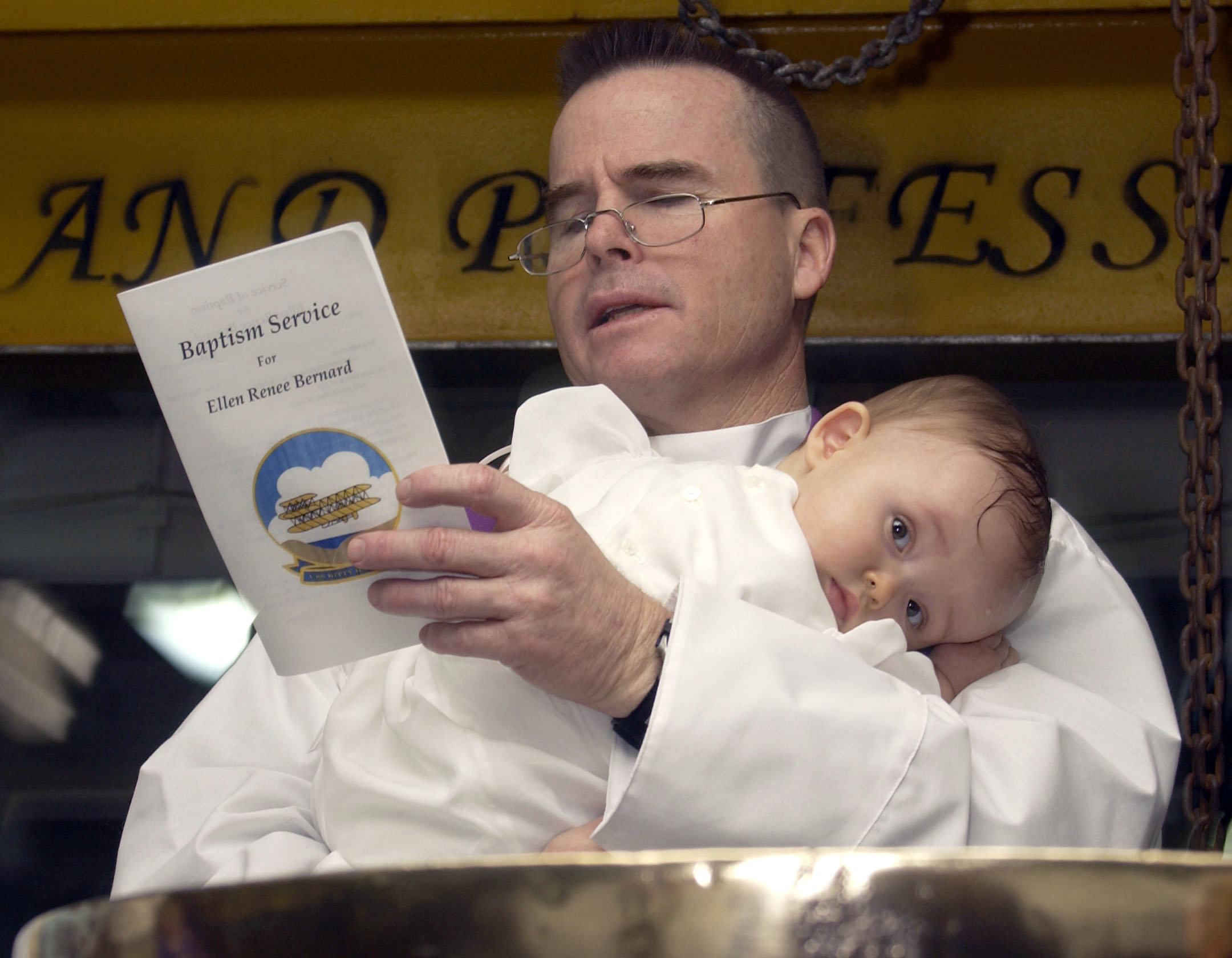 Yokosuka, Japan (Dec, 19, 2004) - Chaplain, commander Michael L. Schutz performs a baptism on the flight deck of the conventionally powered aircraft carrier USS Kitty Hawk (CV 63), using the time-honored tradition of the ship's bell.